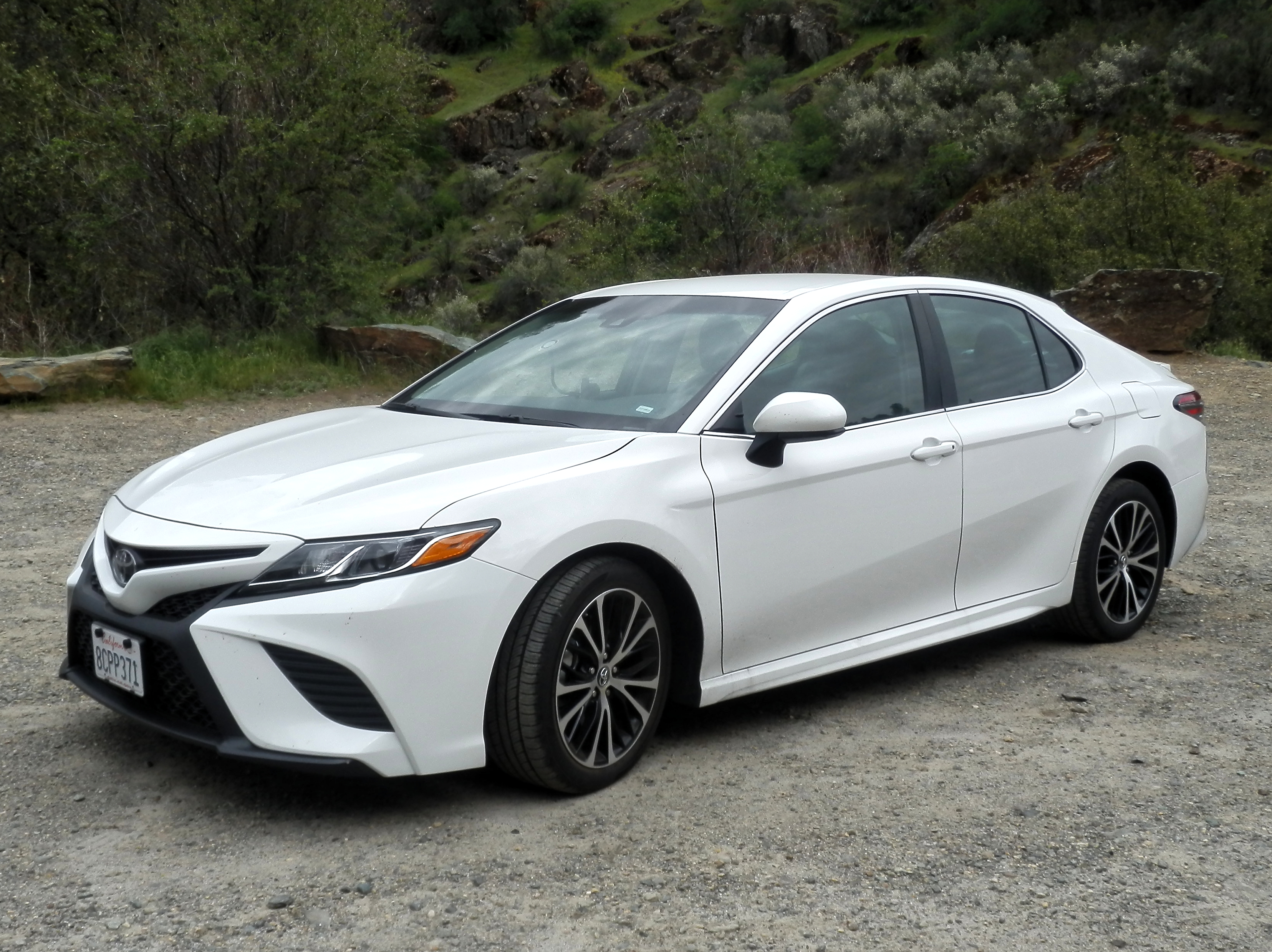 Toyota Camry SE in the Yosemite Nationalpark